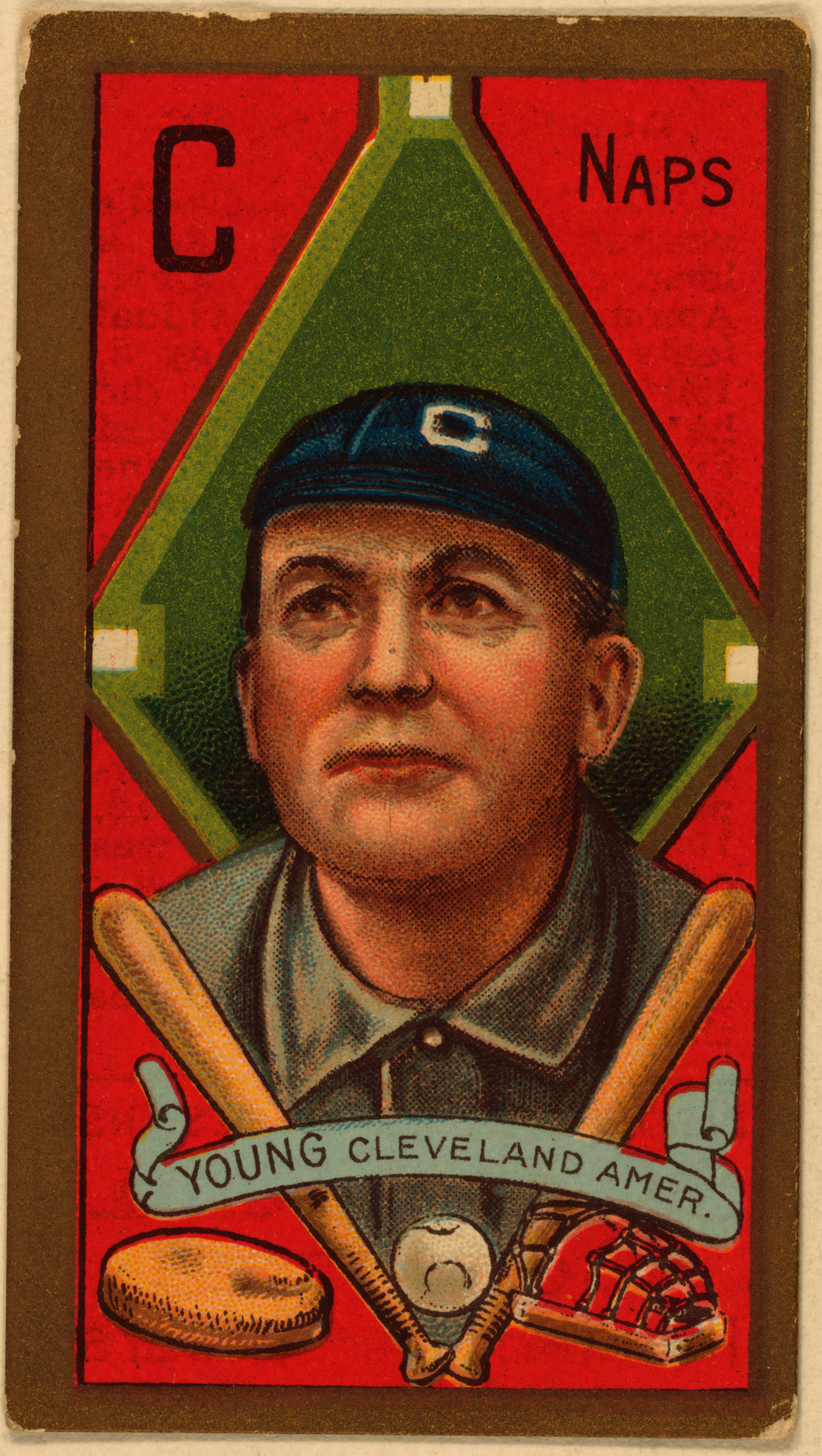 Cy Young, Cleveland Naps, baseball card portrait. T205 Gold Borders 1911 reverse